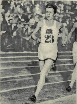 Iso Hollo - photo from "Światowid" 1932 no. 33.